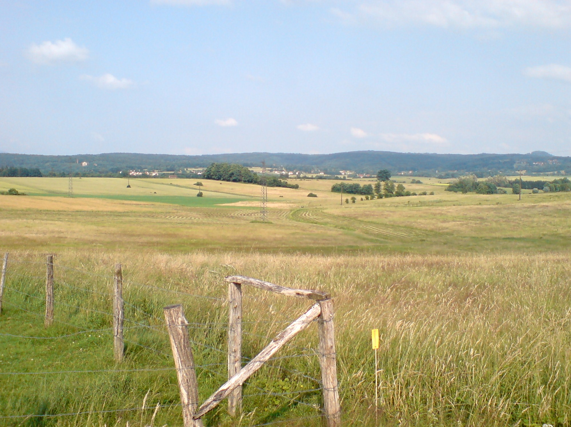 Landscape near Palante, in Haute-Sâone, in France.